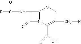 Cephalosporin nucleus I drew this. Daevatgl 18:59, Jul 6, 2004 (UTC)